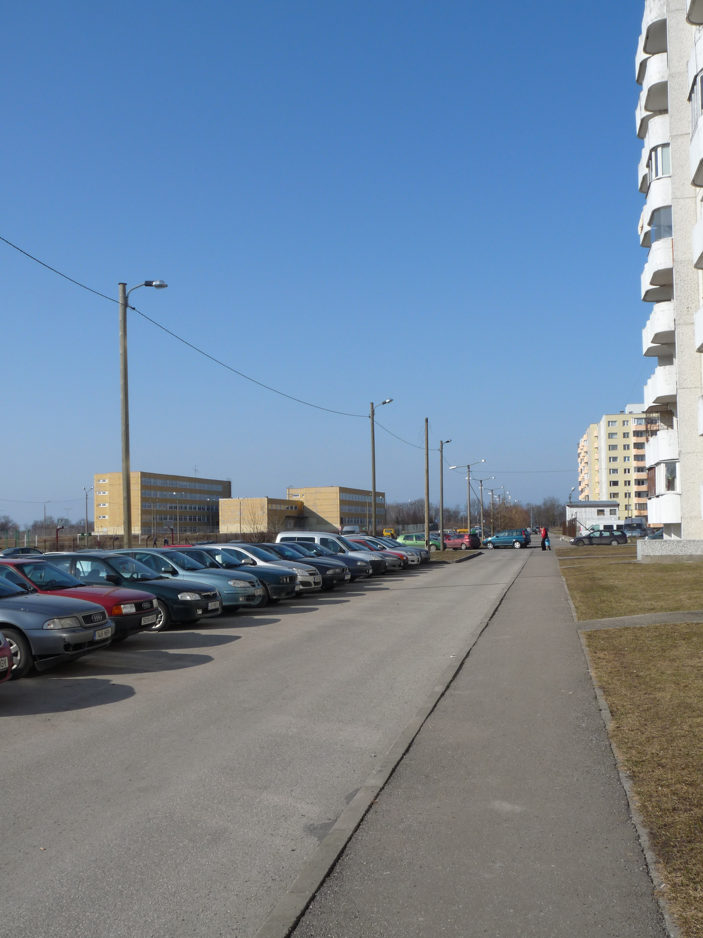 Martsa street in Tallinn